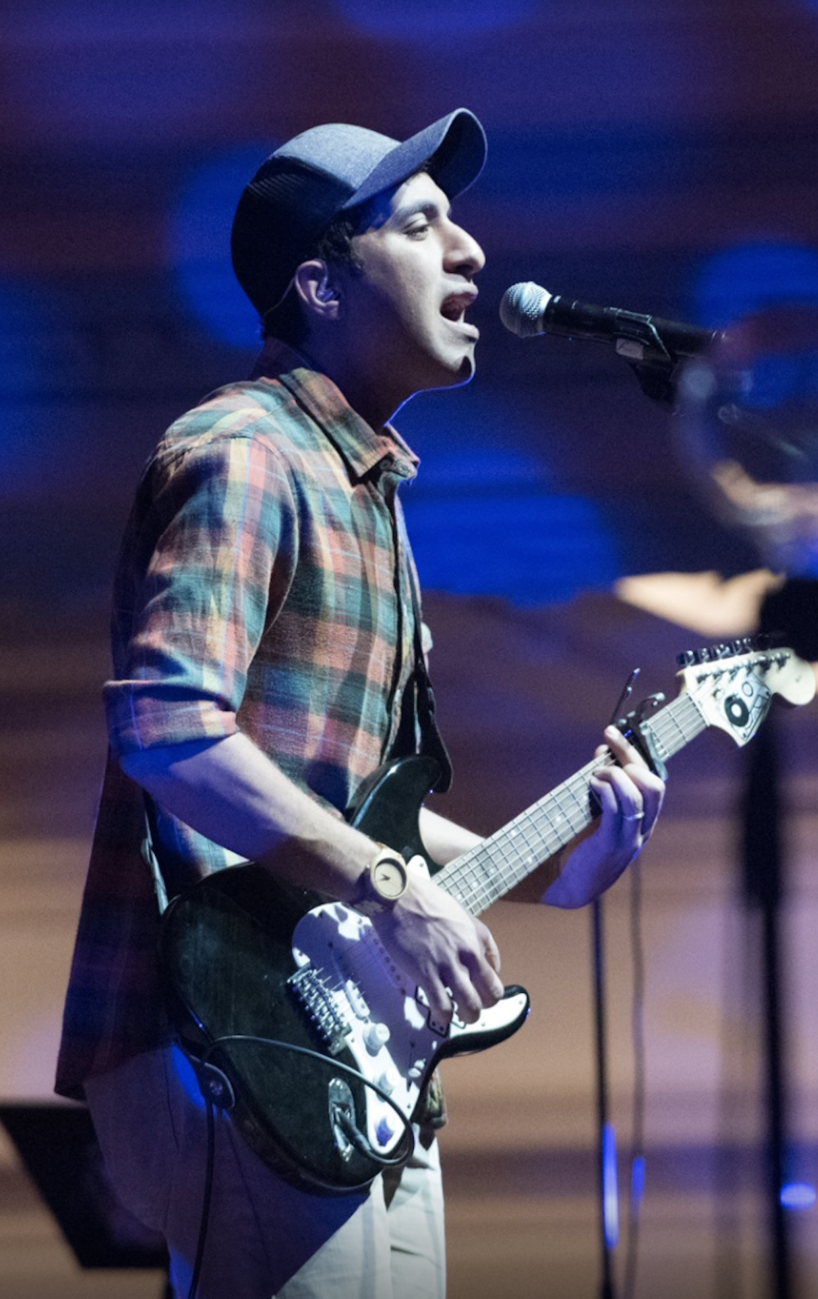 Raef Haggag performing live with Fender Stratocaster in London, UK